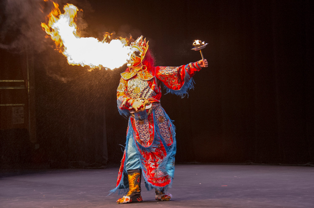 The Sichuan Opera at the UAlbany PAC.